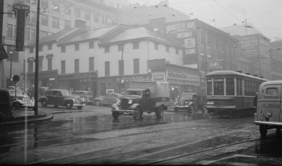 We see a tram passing of trucks and cars in the rain at the intersection of Craig Street and St. Laurent Boulevard in Montreal. We note several billboards.